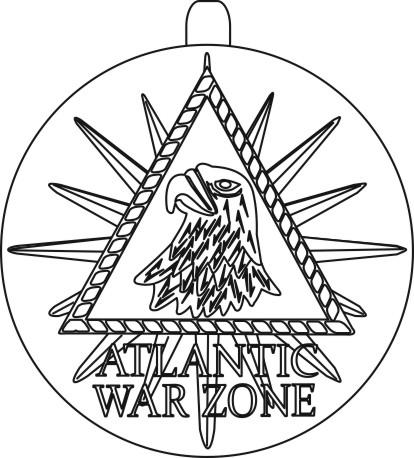 Merchant Marine Atlantic War Zone Medal obverse